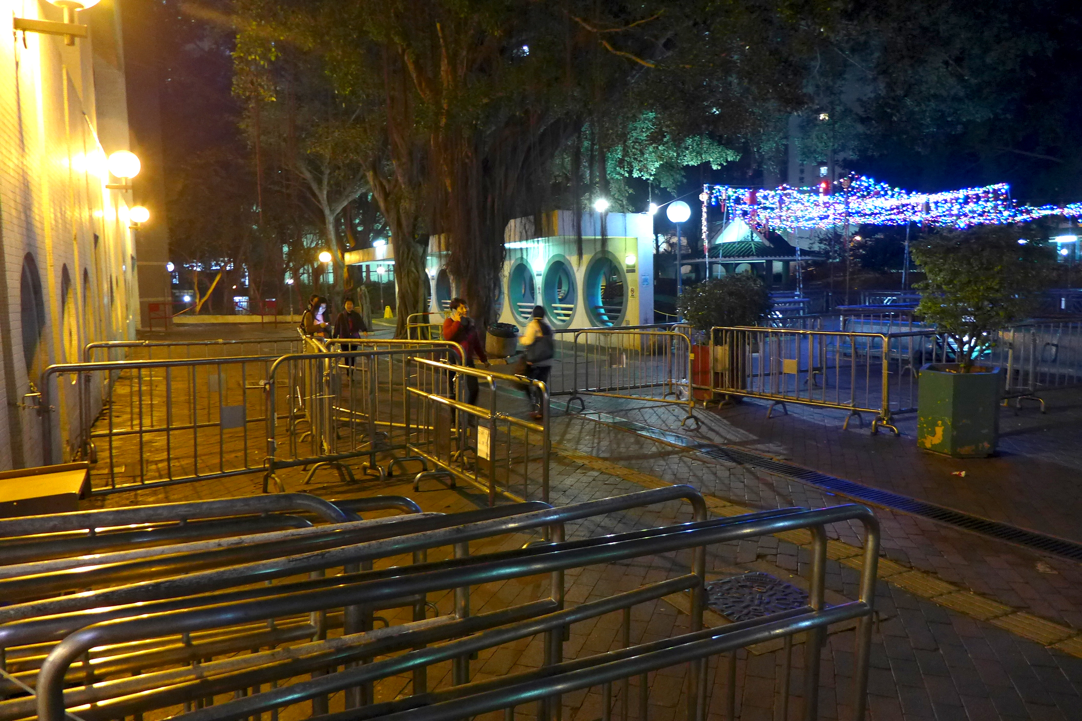 Leung King Estate Roadblock against hawkers